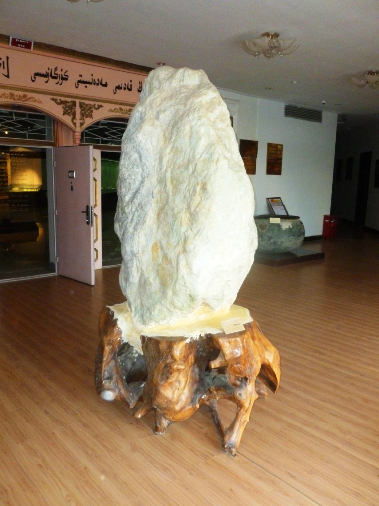 The photo shows a very large rock of "mutton-fat" nephrite jade